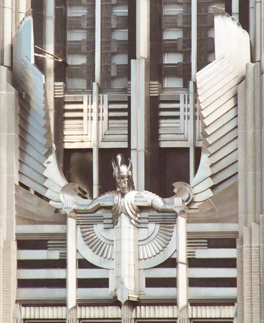 Spirit of Light or Spirit of Power by Clayton Frye (1932). Stainless steel sculpture (one source states as aluminum, but doubtful due to look, composition, and styling), part of the Art Deco facade of the Niagara-Mohawk Power building, Syracuse, New York. Image taken June 29, 2005 by User:Leonard G.. See also :Image:MohawkNiagraFacade.jpg for a larger image from which this clip was taken.